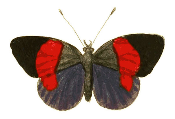 Extract from Plate XXIII. NYMPHALIS PYRAMUS ♂ (= Haematera pyrame).